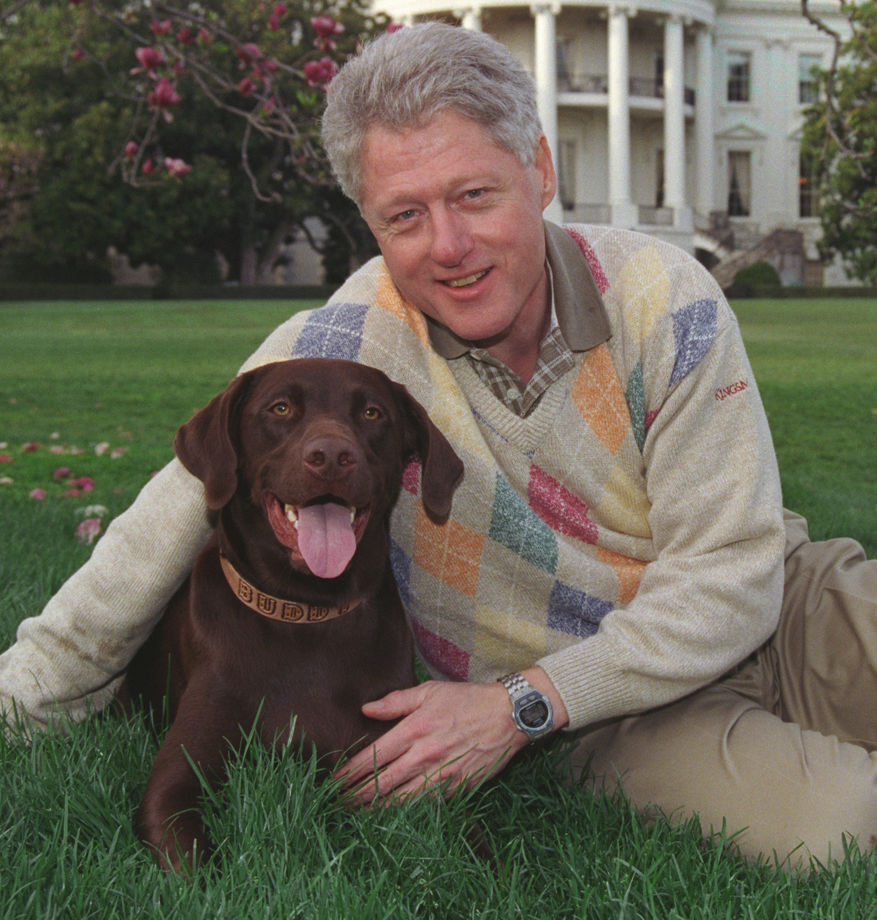 Title: Photograph of President William Jefferson Clinton with Buddy the Dog: 04/06/1999 Creator: President (1993-2001 : Clinton). White House Photograph Office. (01/20/1993 - 01/20/2001) Types of Archival Materials: Photographs and other Graphic Materials Contacts: William J. Clinton Library (NLWJC), 1200 President Clinton Avenue, Little Rock, AR 72201. Phone: 501-244-2877; Fax: 501-244-2881; Production Dates: 04/06/1999 From: Series: Photographs Relating to the Clinton Administration, compiled 01/20/1993 - 01/20/2001 Collection WJC-WHPO: Photographs of the White House Photograph Office (Clinton Administration), 01/20/1993 - 01/20/2001 Persistent URL: Access Restriction(s): Unrestricted Use Restriction(s): Unrestricted